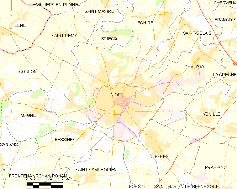 Map of French municipality Niort